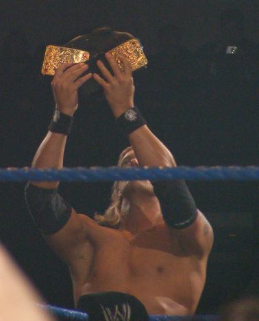 wwe edge